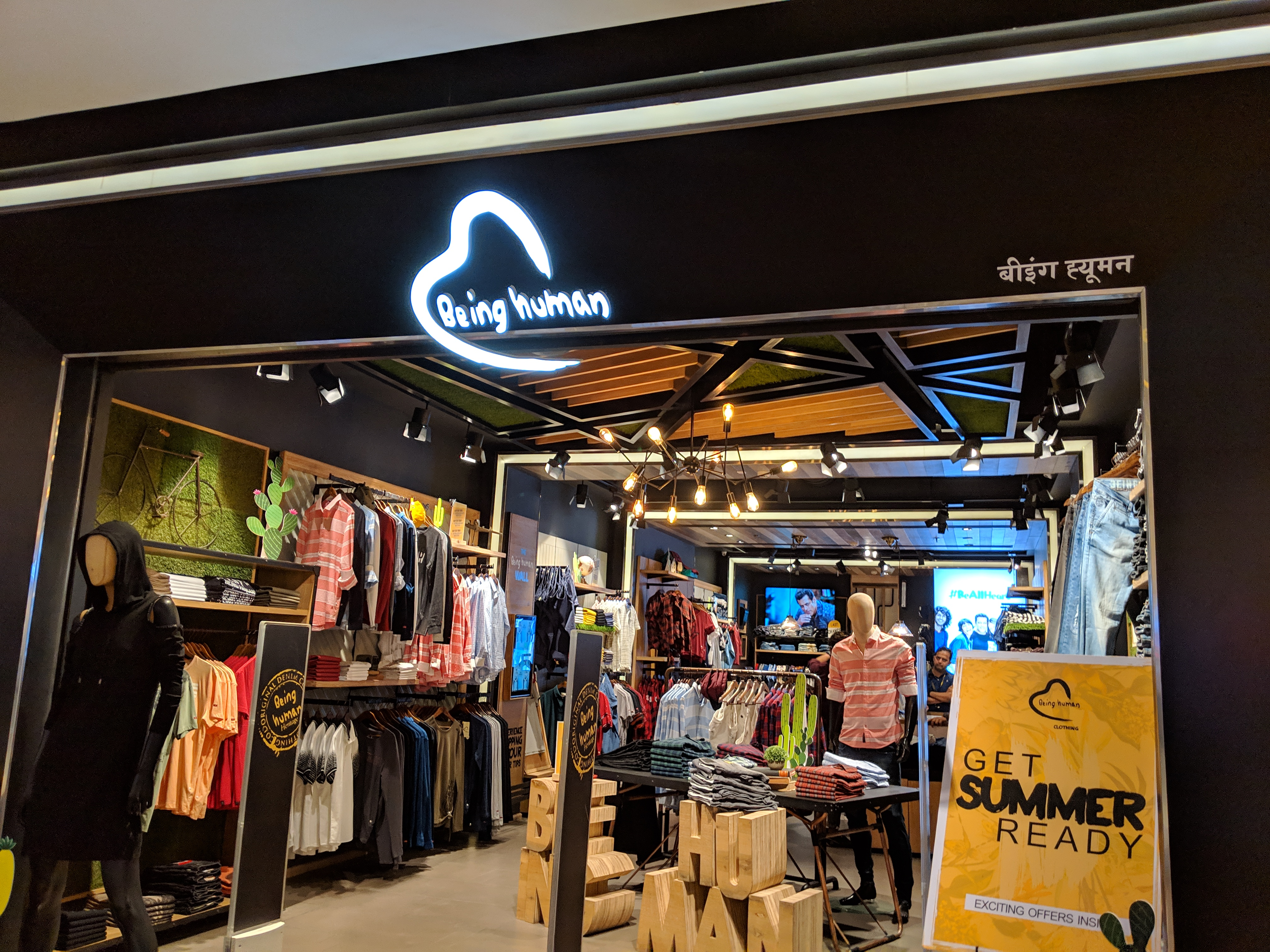 Being human store Mumbai Phonix Mall